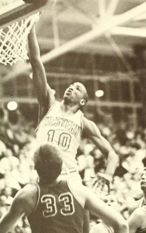 American college basketball player Henry Logan of Western Carolina University from the 1967 WCU "Catamount" student yearbook.